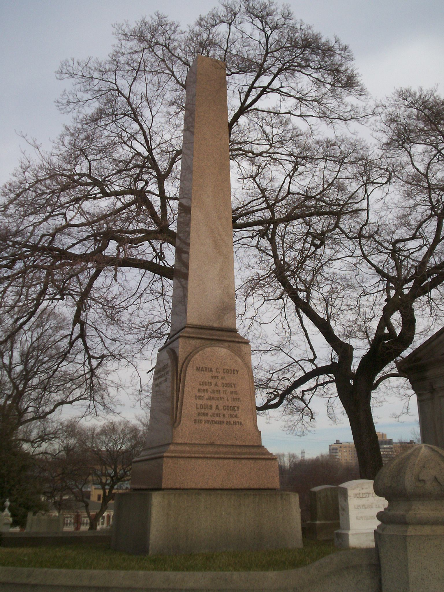 Grave of Louis Antoine Godey in Laurel Hill Cemetery in Philadelphia, PA.